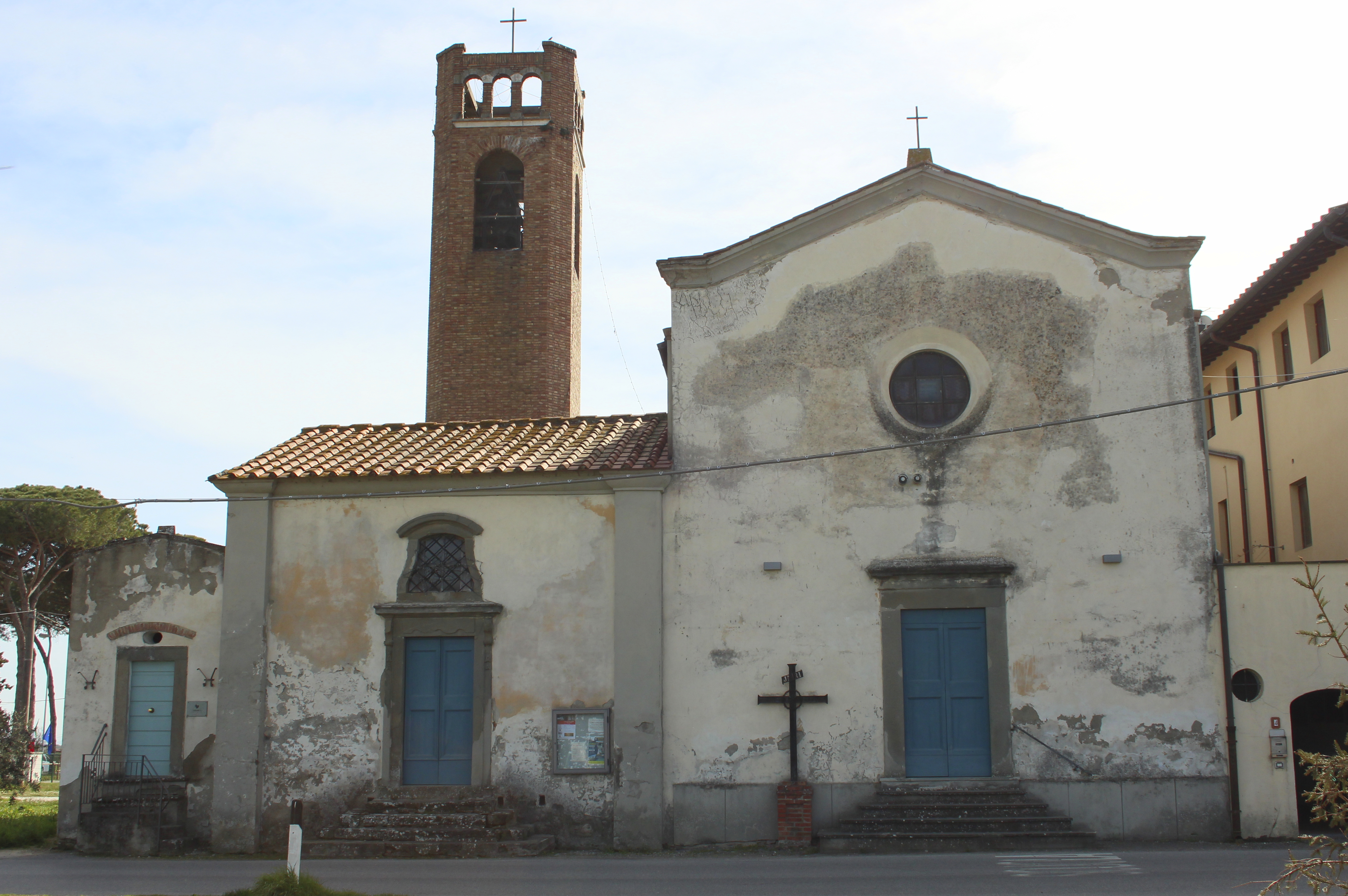 Church San Michele Arcangelo, Roffia, hamlet of San Miniato, Province of Pisa, Tuscany, Italy